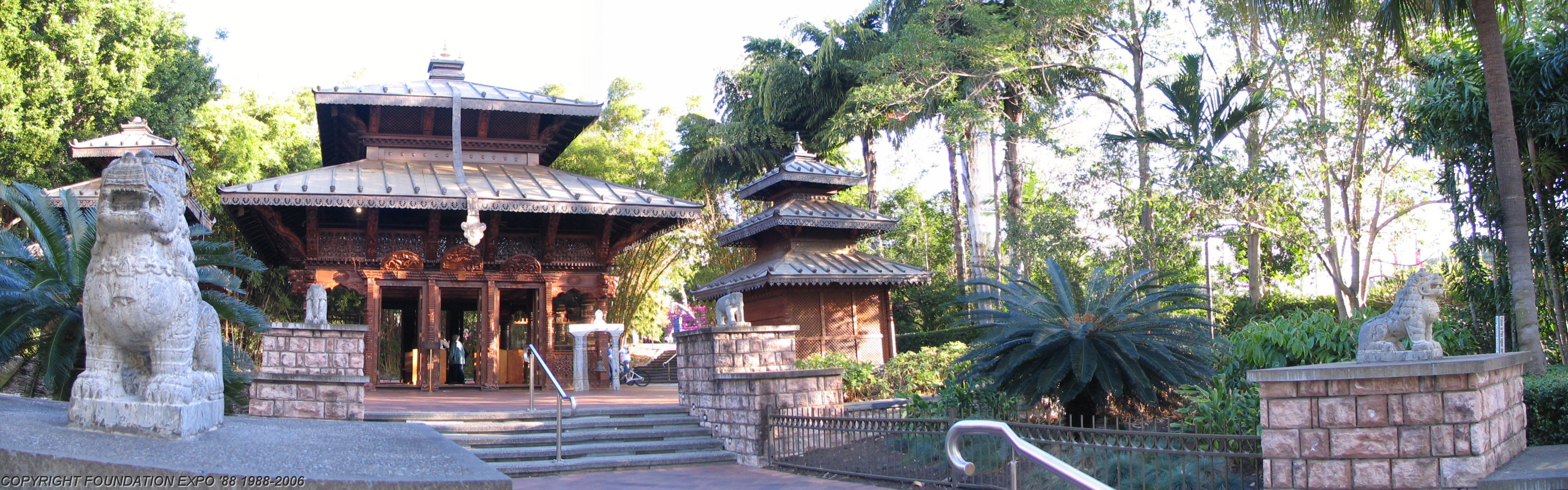 The Brisbane Nepal Peace Pagoda from World Expo '88